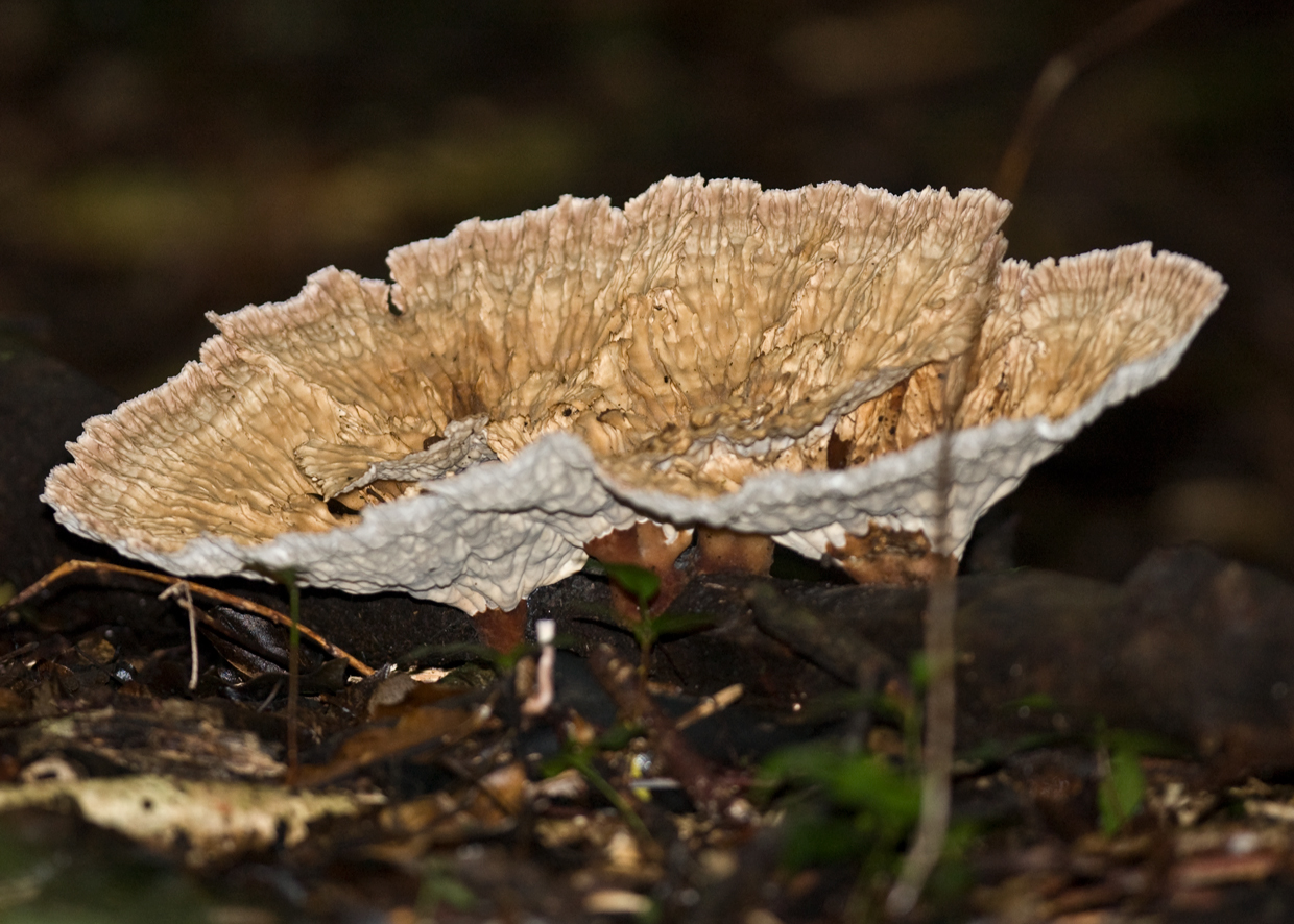 The fungus Cymatoderma elegans Jungh. Specimens photographed in Swans Crossing State Forest, New South Wales, Australia.